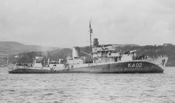 Revised Flower-class corvette HMCS Giffard